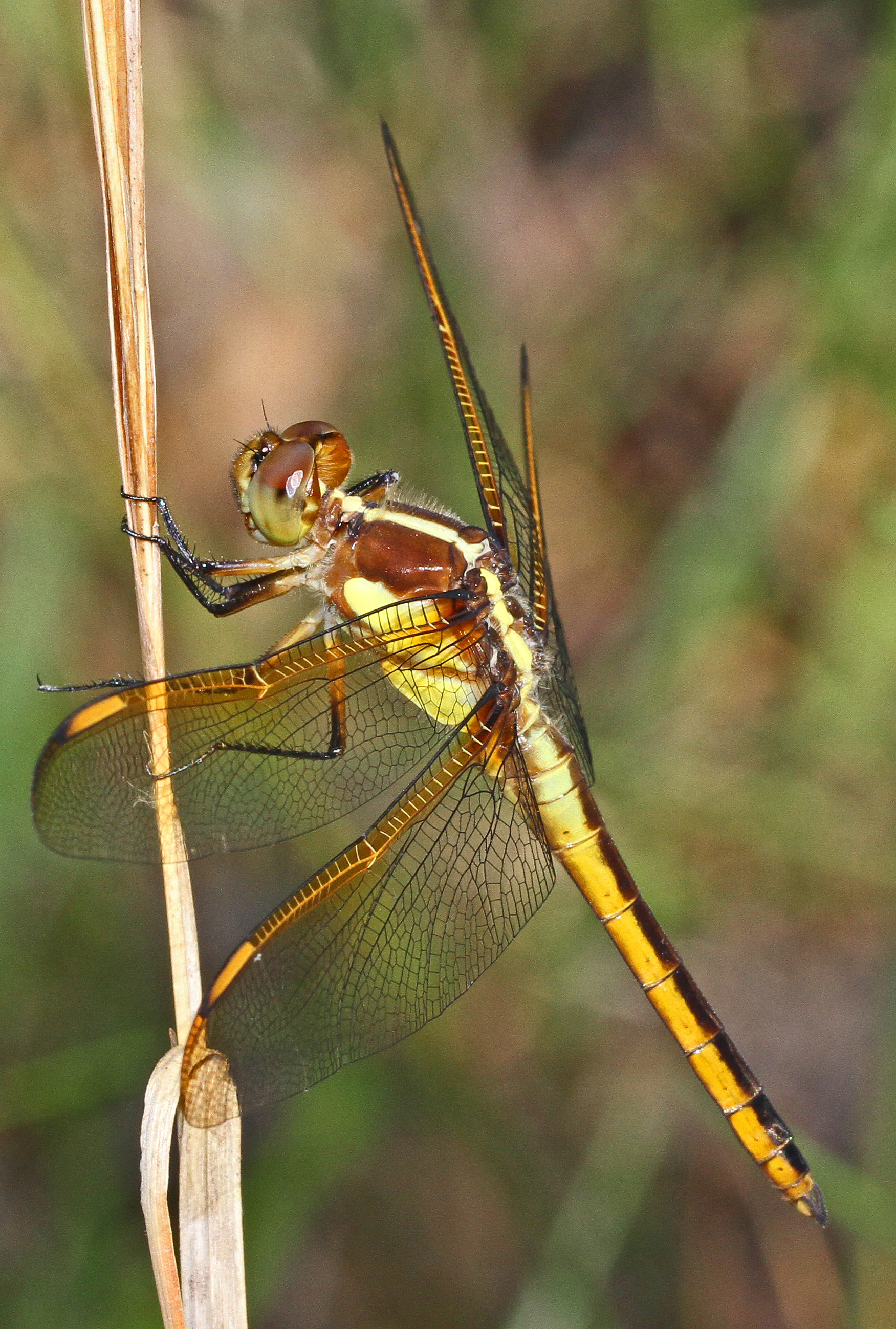 Yellow-sided Skimmer - Libellula flavida, Patuxent National Wildlife Refuge, Laurel, Maryland